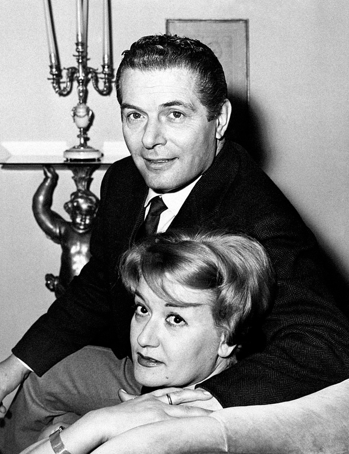 Italian singer Flo Sandon's (Mammola Sandoni) sitting with her husband, the Italian singer Natalino Otto (Natale Codognotto). 1959